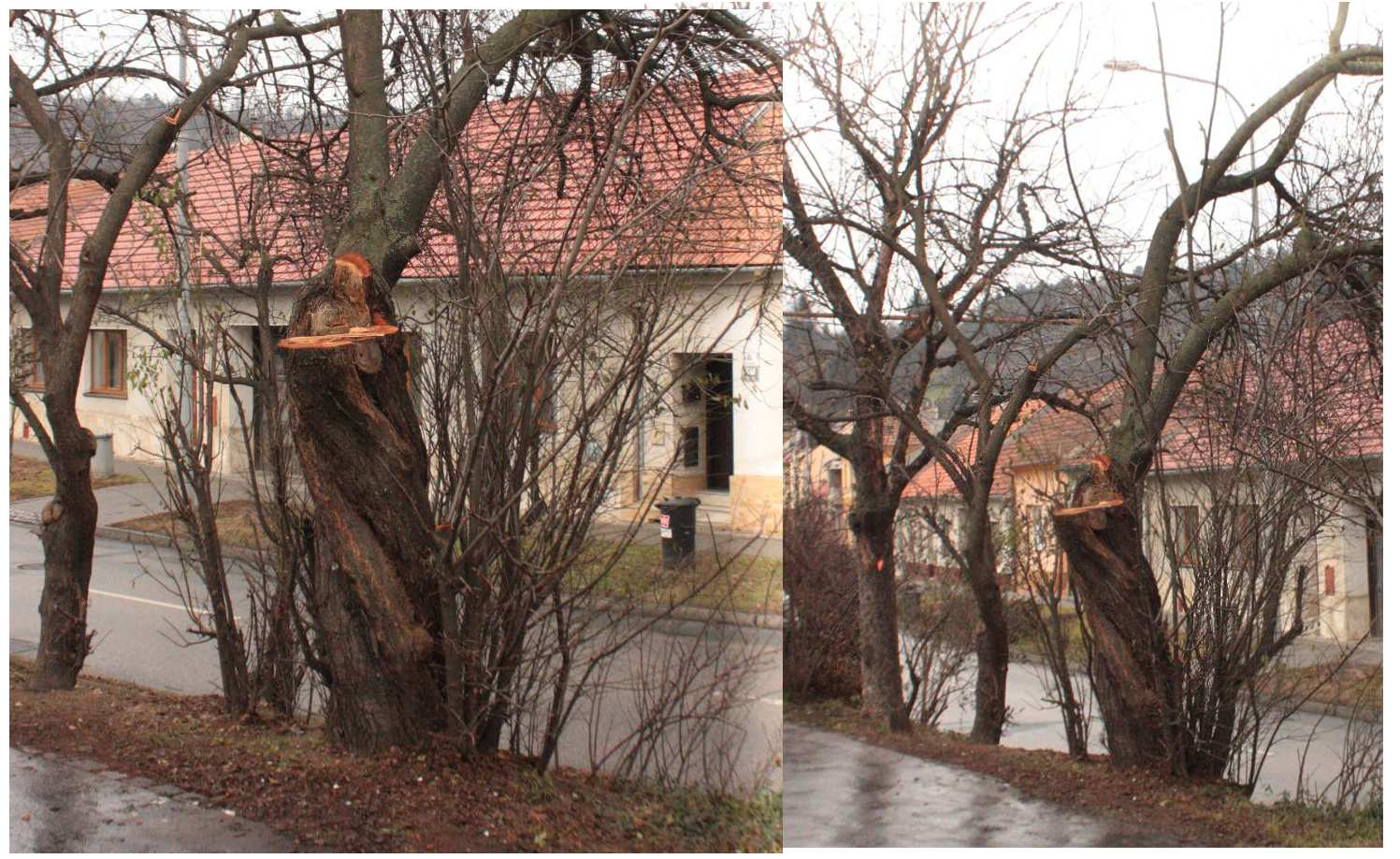 Pruning, Brno , Czech republic